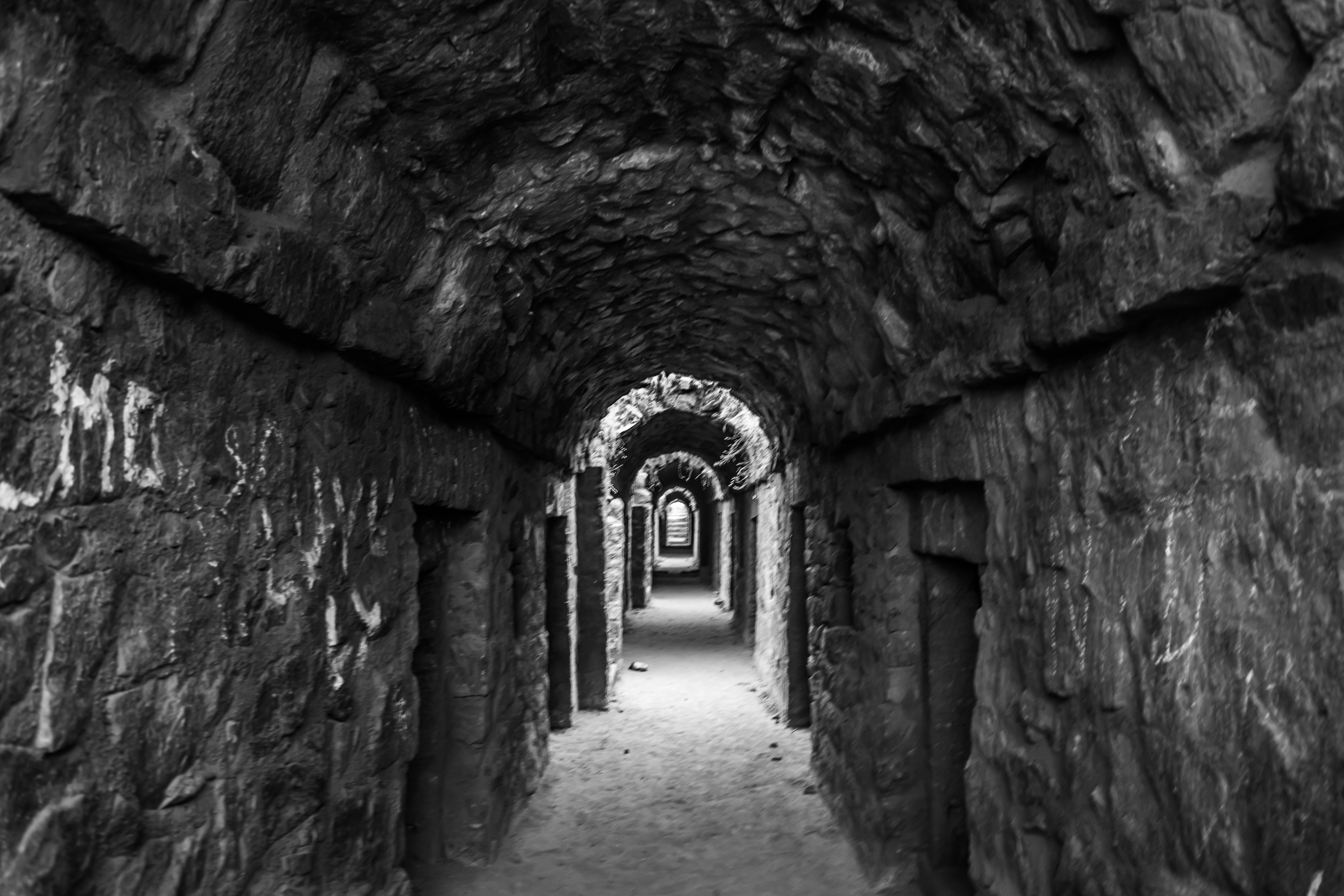 Long underground passage of Tughlaqabad fort next to Bijai-Mandal